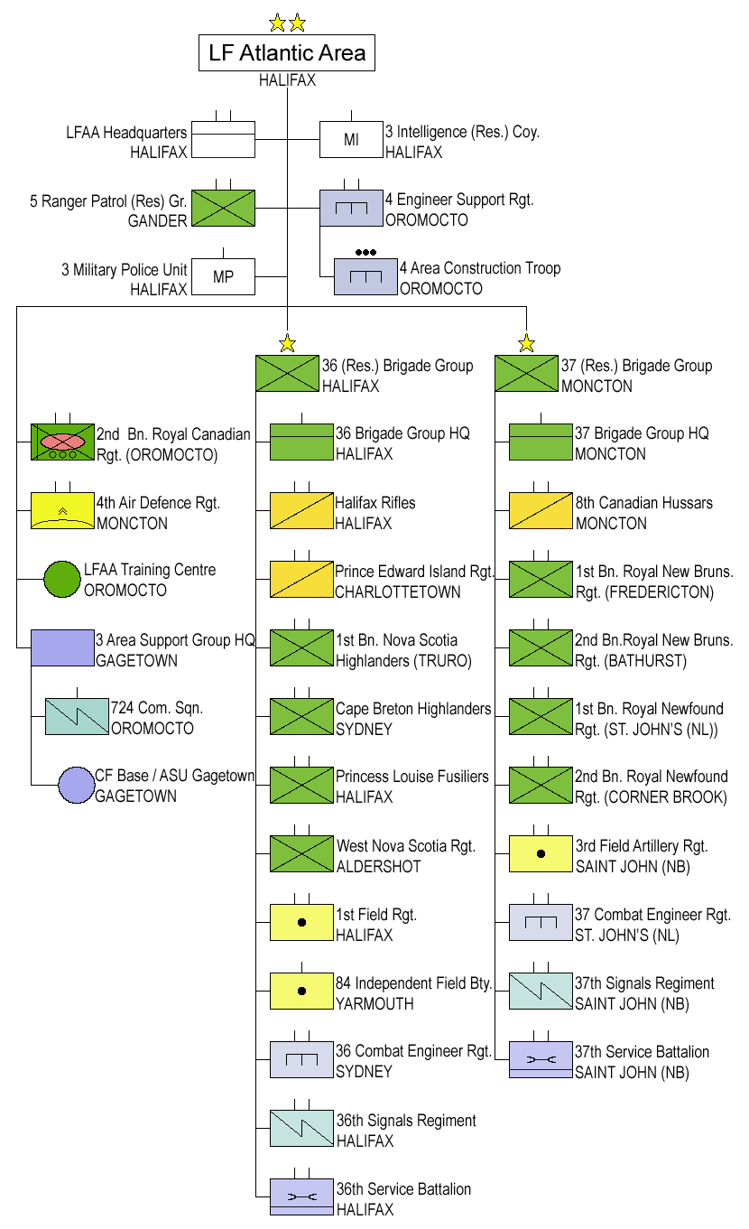 Canadian Land Forces Atlantic Area